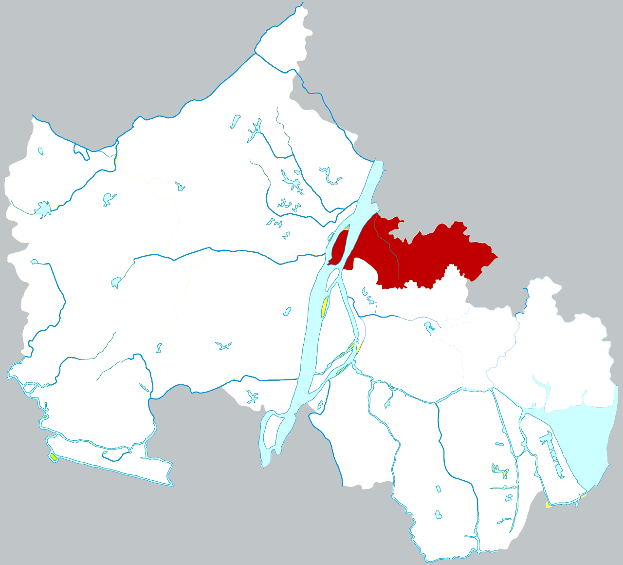 Location of Huashan district in Ma'anshan city, China